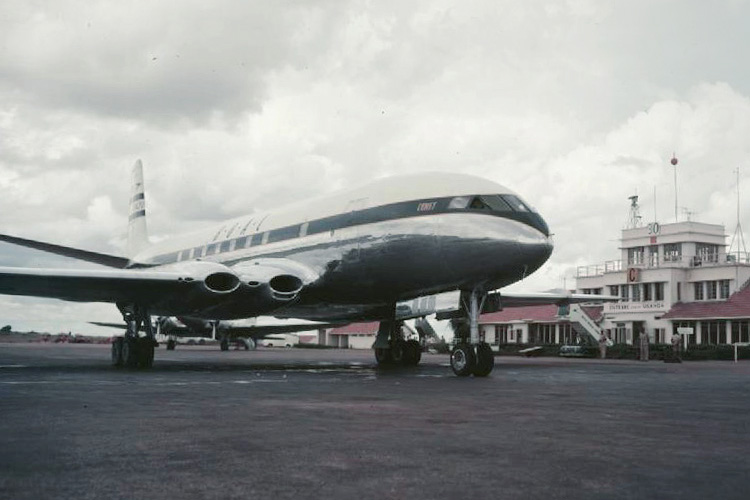 A BOAC de Havilland Comet jet airliner, en route to Johannesburg from London, breaks its journey at Entebbe Airport, Uganda. 1952 ATP 18376C.